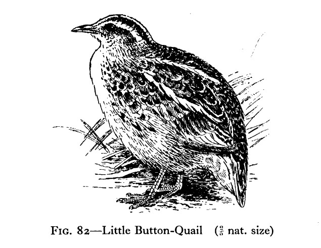 Turnix sylvatica from Whistler, Popular Handbook of Indian birds